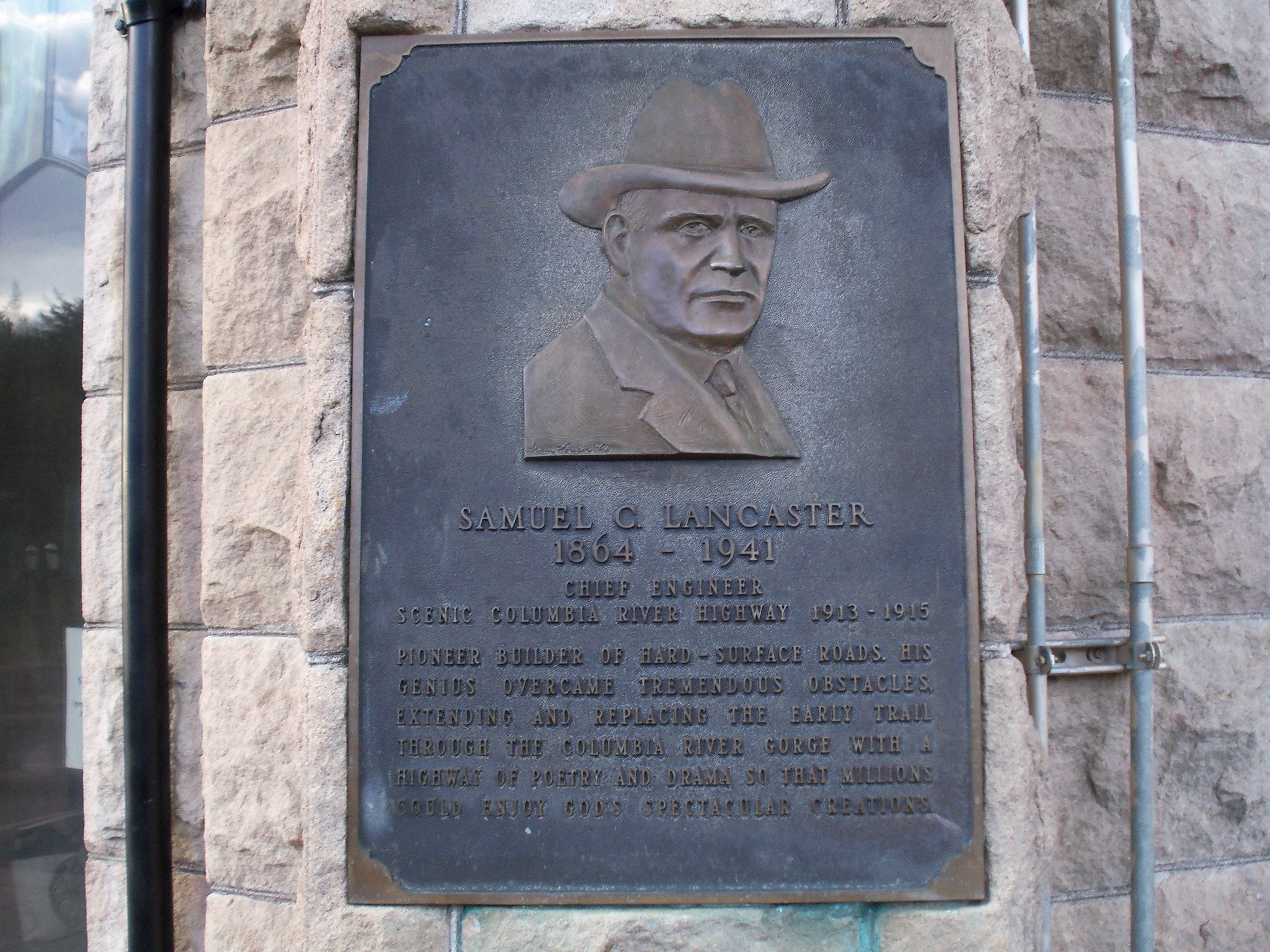 Samuel C. Lancaster plaque at Crown Point, Oregon. September 7, 2009